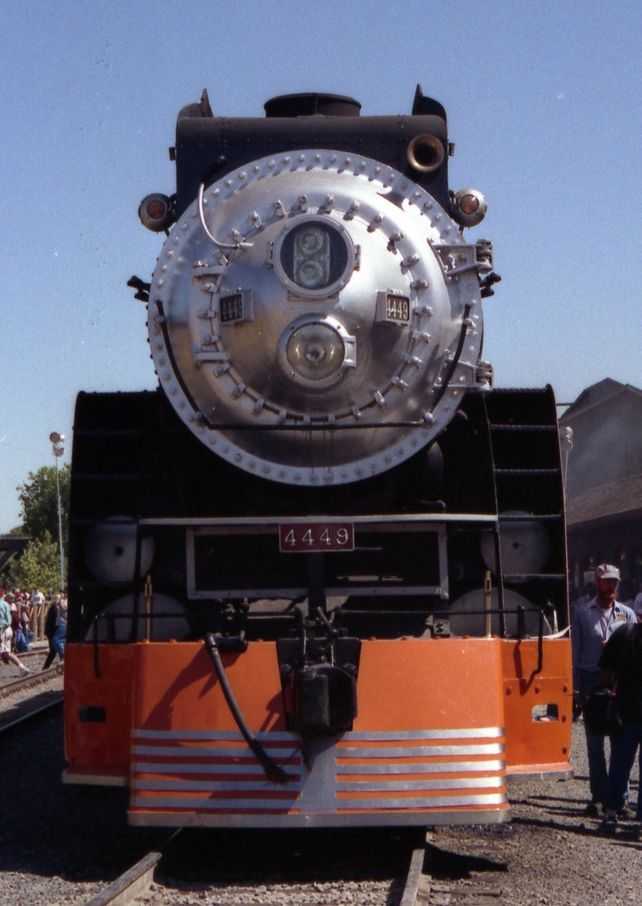 The front end of Southern Pacific 4449 at Railfair, at the California State Railroad Museum, May 10, 1991. Photo by Sean Lamb (User:Slambo)